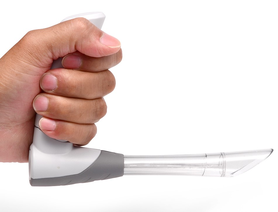 Direct Line of Site Laryngoscope by Adroit Surgical